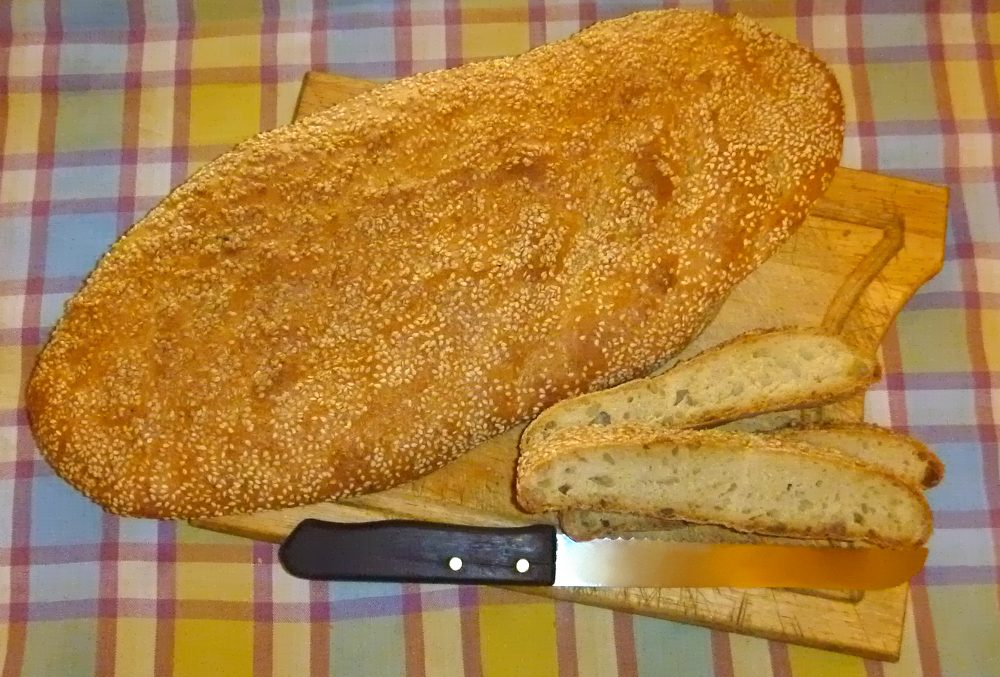 Lagana (Greek: λαγάνα), an azyme bread, baked only on Clean Monday (Greek: Καθαρά Δευτέρα).